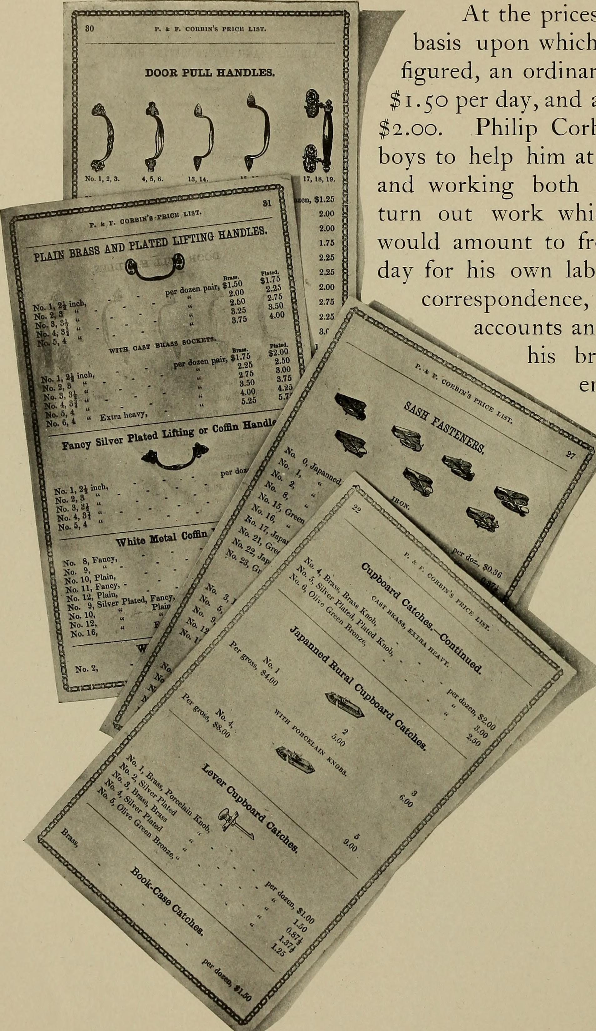 Title: Year: 1904 (1900s) Authors: Comstock, John B Atwell, George C., comp Subjects: Corbin, P. & F Locks Publisher: (Buffalo and New York, The Matthews-Northrup Works) Text Appearing Before Image: ht orbefore — often as early as three oclock — and by the time his helpers were readyfor the day he had accomplished a goodly amount of work and had matters inshape for them to begin. A man named Samuel Goodrich was their firstemployee, and two boys were hired later to help in the foundry. At the end of four months Mr. Doen grew dissatisfied. Illy-advisedpeople persuaded him that without an engine to drive the machinery there waslittle chance of success. The disinclination of the Corbin brothers to assume adebt of six hundred dollars for a portable Baxter engine (which was in thosedays considered with favor and was a pioneer in its field) was the rock uponwhich the partnership split, and on September i, 1849, Edward Doen sold hisinterest to Mr. Whiting, Mrs. Corbins father, receiving in payment his threehundred dollars, with six per cent, interest for the time invested, and $1.50 perday for his time. This was good wages in those days. 25 HISTORY O F THE HOUSE O F & C O R B I N Text Appearing After Image: At the prices for labor which formed the basis upon which the cost of the goods was figured, an ordinary brass founder could make 1.50 per day, and a very good man could make 2.00. Philip Corbin, however, by hiring two boys to help him at a wage of 75 cents per day and working both late and early, was able to turn out work which, after paying the boys, would amount to from six to seven dollars per day for his ov/n labor. To him, also, fell the correspondence, the collections and care of accounts and the keeping of the ledger, brother Frank being chiefly employed in the production of goods. LIFTING HANDLES, ETC.FROM OLD CATALOGUE 26